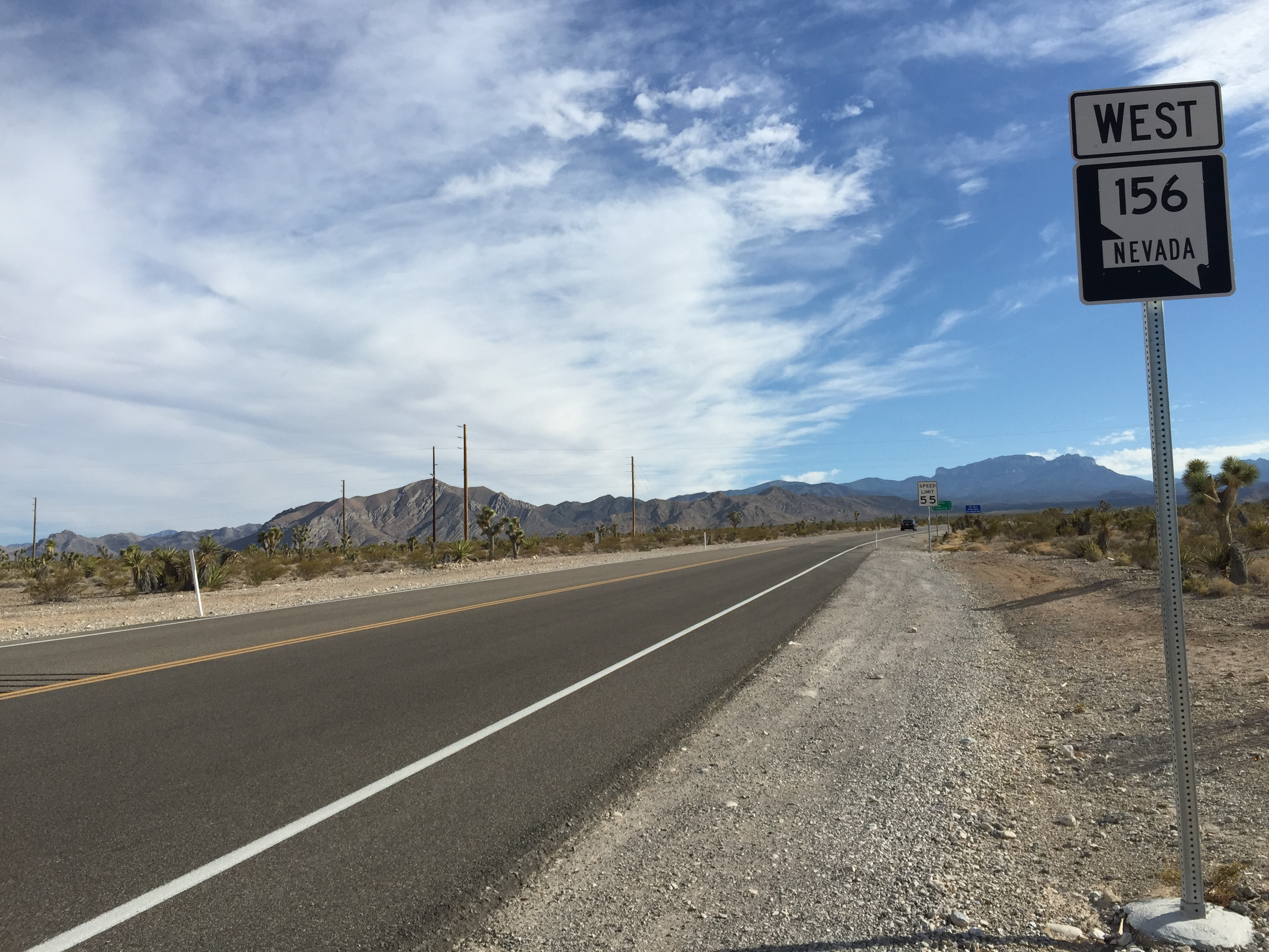 View west from the east end of Nevada State Route 156 (Lee Canyon Road) near Las Vegas, Nevada